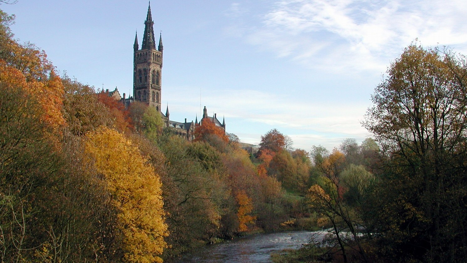 Tower of The University Glasgow viewed from nearby parkland